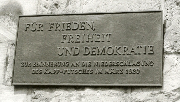 Memorial plaque at Wetter (Ruhr) train station, Germany. Translation of the inscription: For peace, freedom, and democracy. In memory of the suppression of the Kapp Revolt in March 1920.